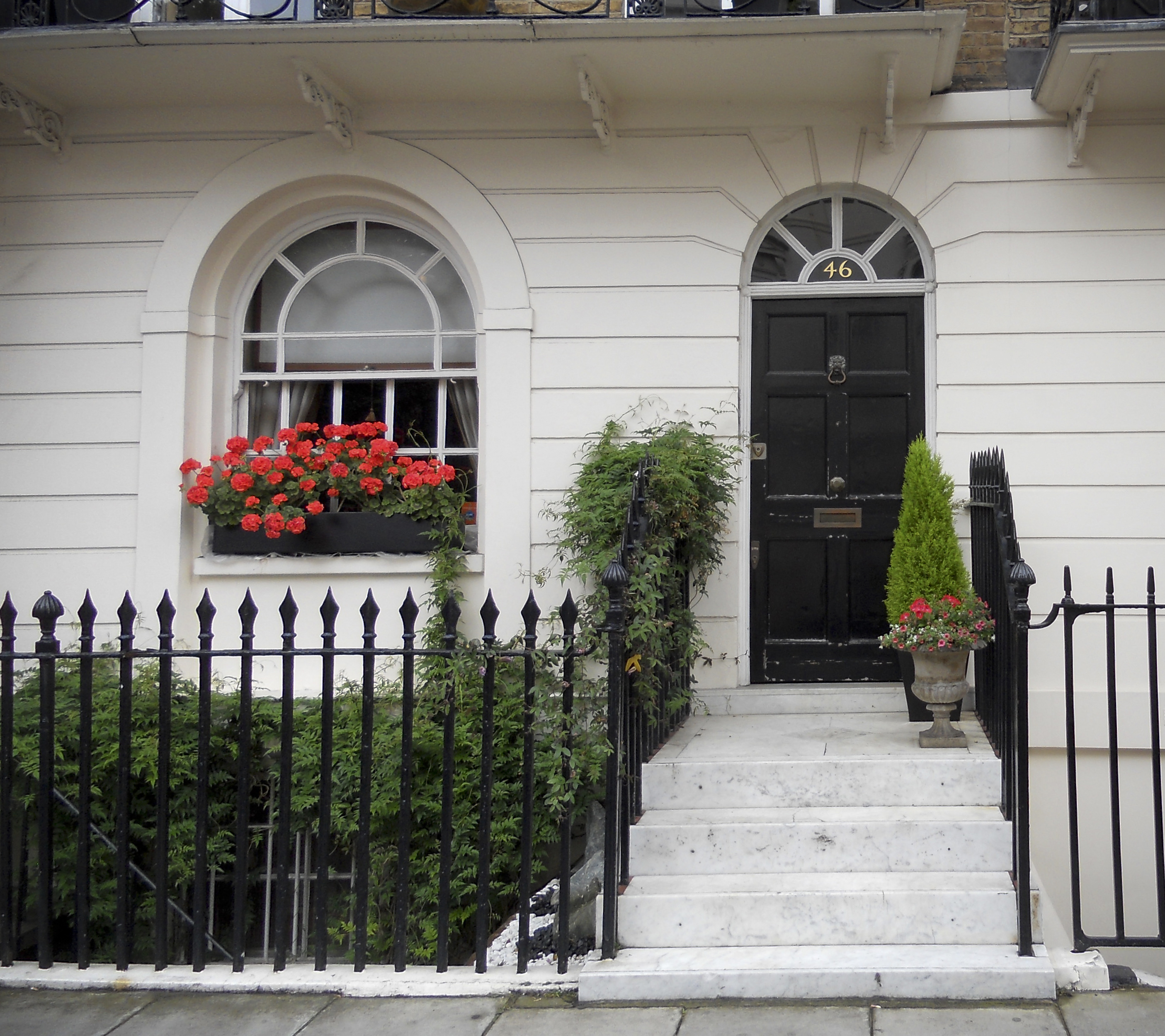 Exterior view of ground floor level of 46 Lower Belgrave Street, Victoria, London, UK. Photographed on 24 June 2012.